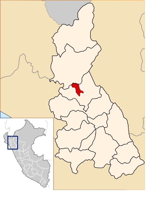 CALLAYUC LOCATION IN CAJAMARCA